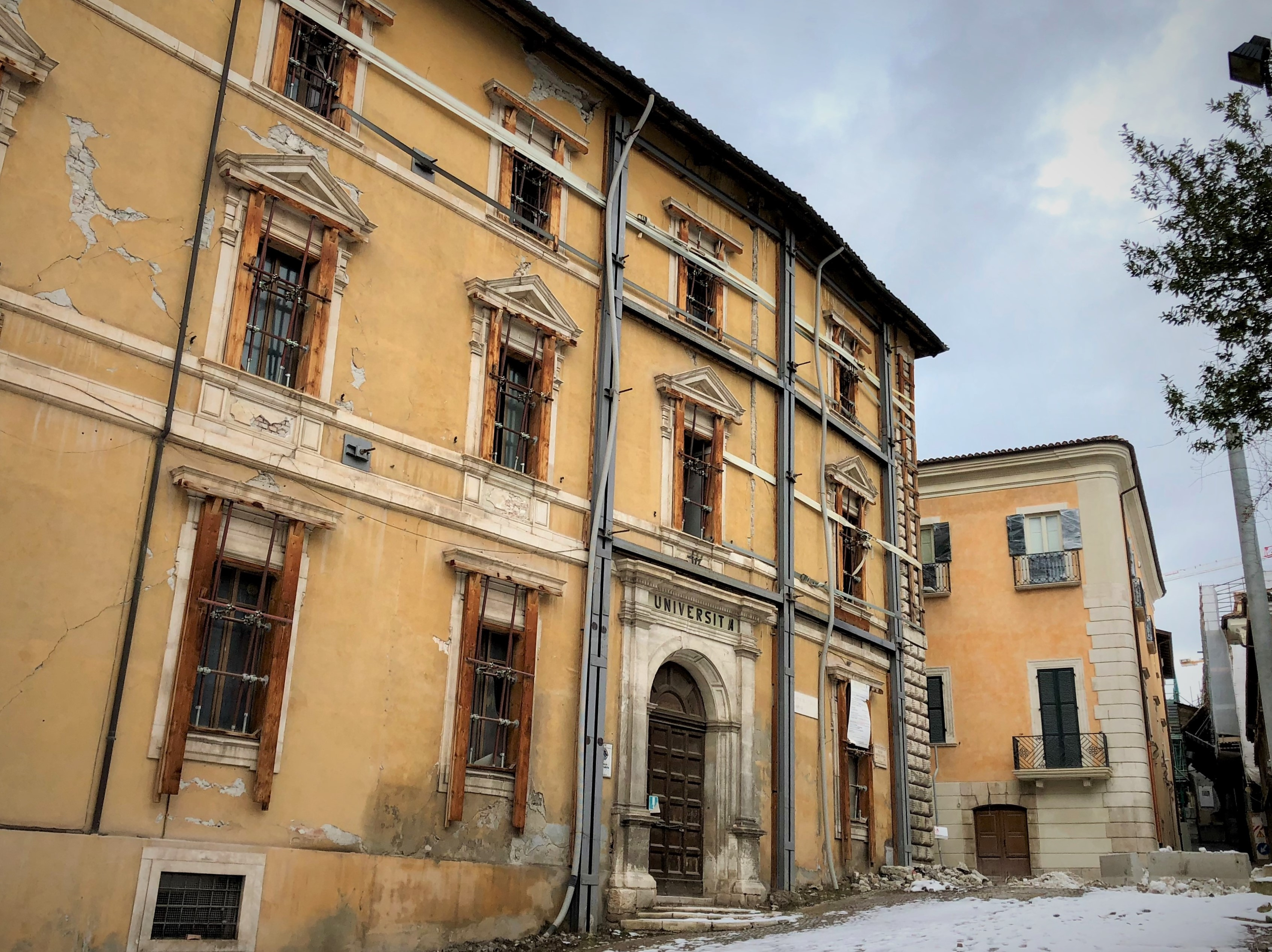 Palazzo Carli in L'Aquila, piazza Vincenzo Rivera.